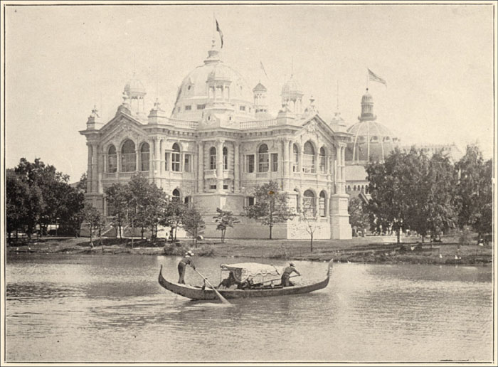 Brazil Building. World's Columbian Exposition. Digitial Identifier: GN90799d_CON_169w World's Columbian Exposition Collection at The Field Museum